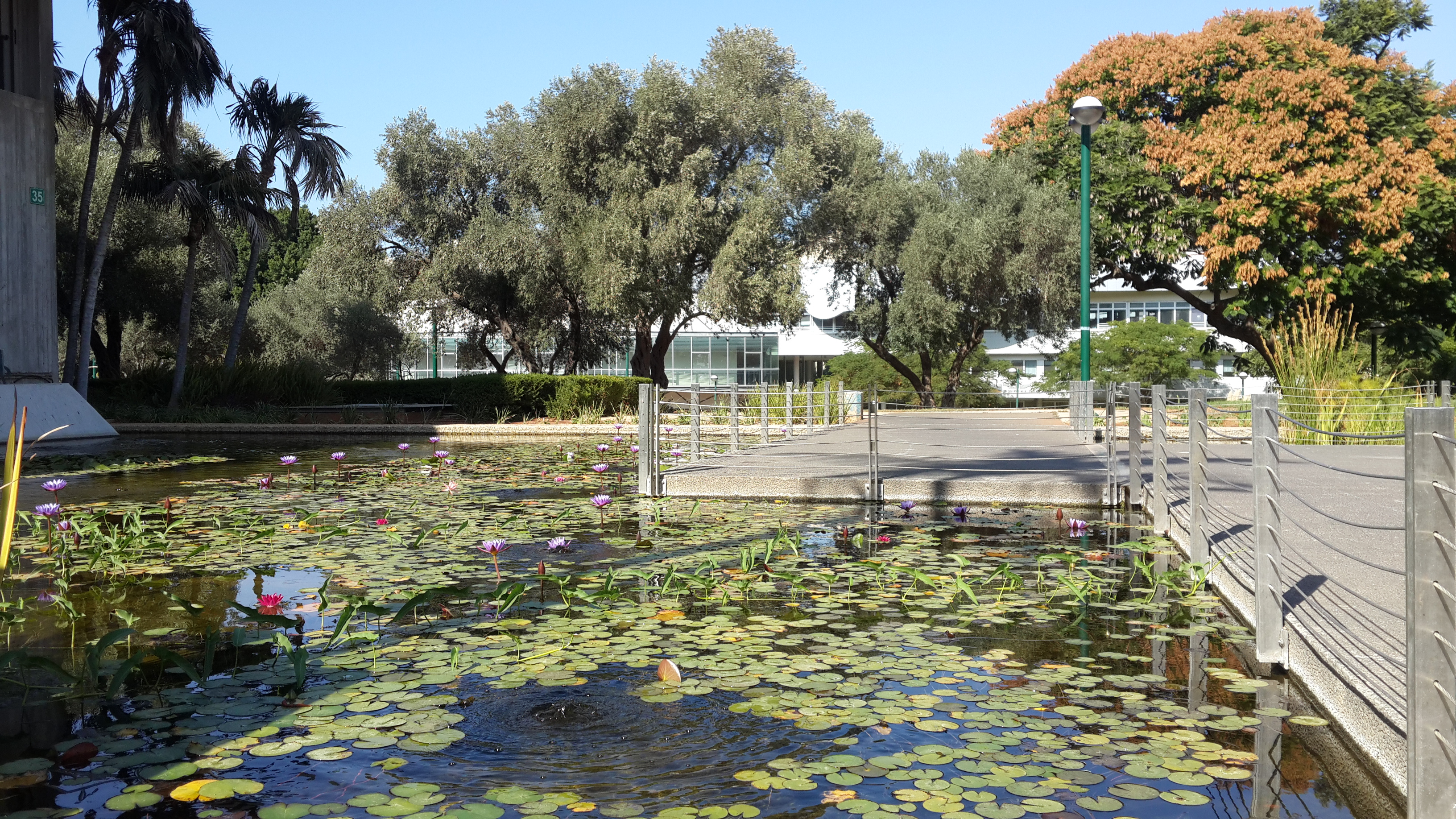 The lily pond at Sapir Center in Kfar Saba, Israel.